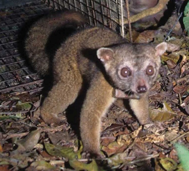 Bassaricyon medius orinomus, in life. Wild animals captured, radio-collared, released, and studied by Roland Kays in Limbo Plot, Pipeline Road, Gamboa, Panama (Kays 2000). Photography courtesy of M. Guerra. Helgen K, Pinto C, Kays R, Helgen L, Tsuchiya M, Quinn A, Wilson D, Maldonado J (2013). "Taxonomic revision of the olingos (Bassaricyon), with description of a new species, the Olinguito". ZooKeys 324: 1--83. Pensoft Publishers. Retrieved on 2013-08-15.